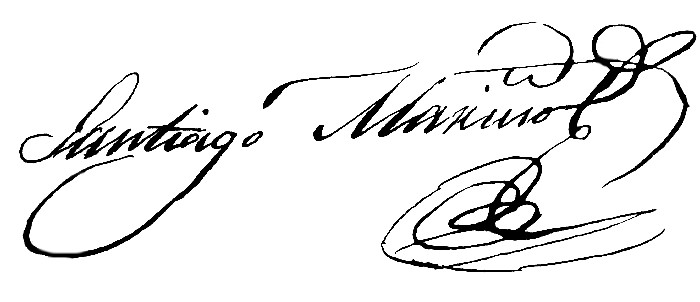 Signature of Santiago Mariño, photographed by Guillermo Ramos Flamerich, from the Archives of Manuel Landaeta Rosales, National Academy of History, Caracas, Venezuela.